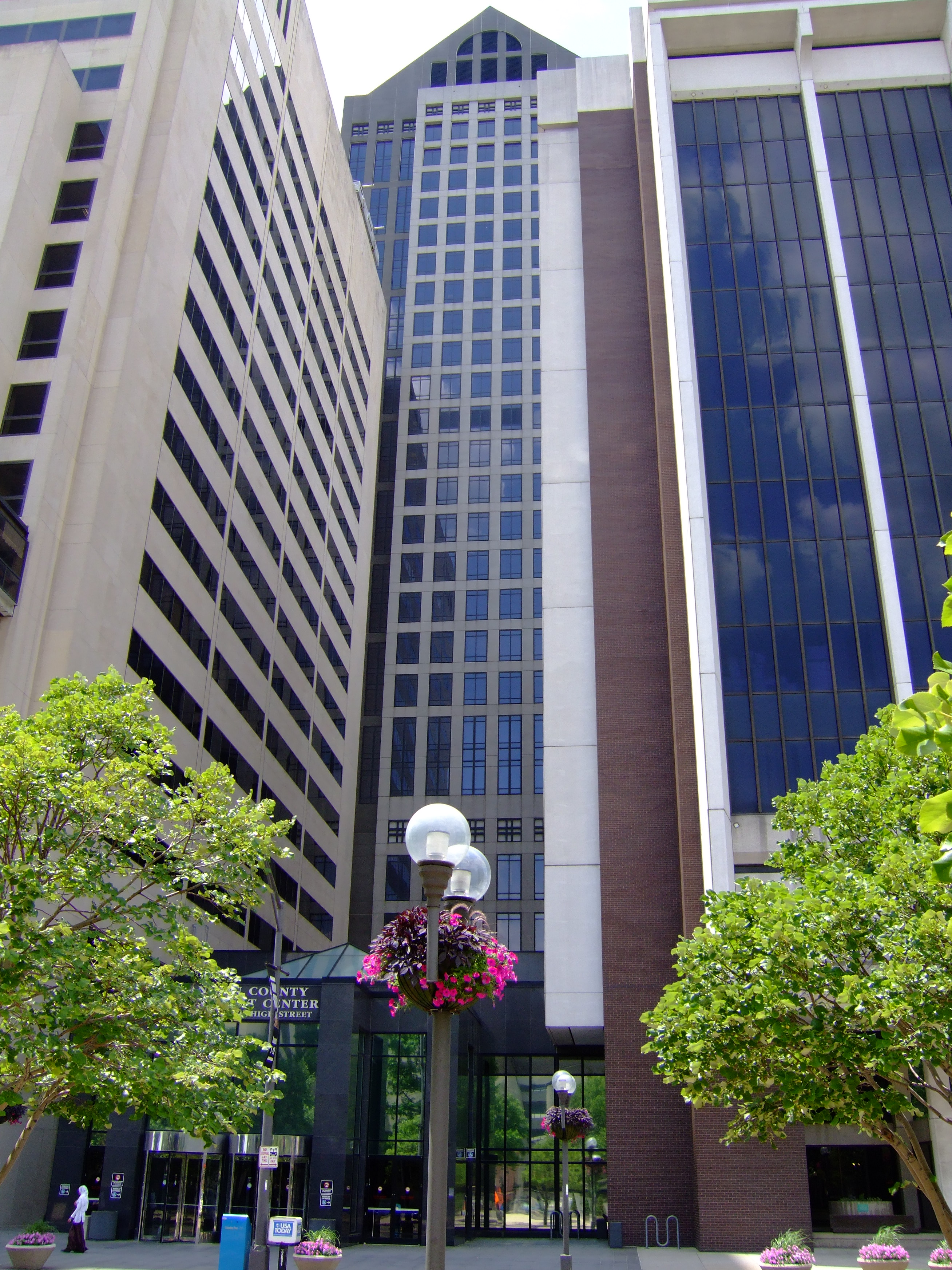 The Franklin County Government Center located in Columbus, Ohio. Self made photo.